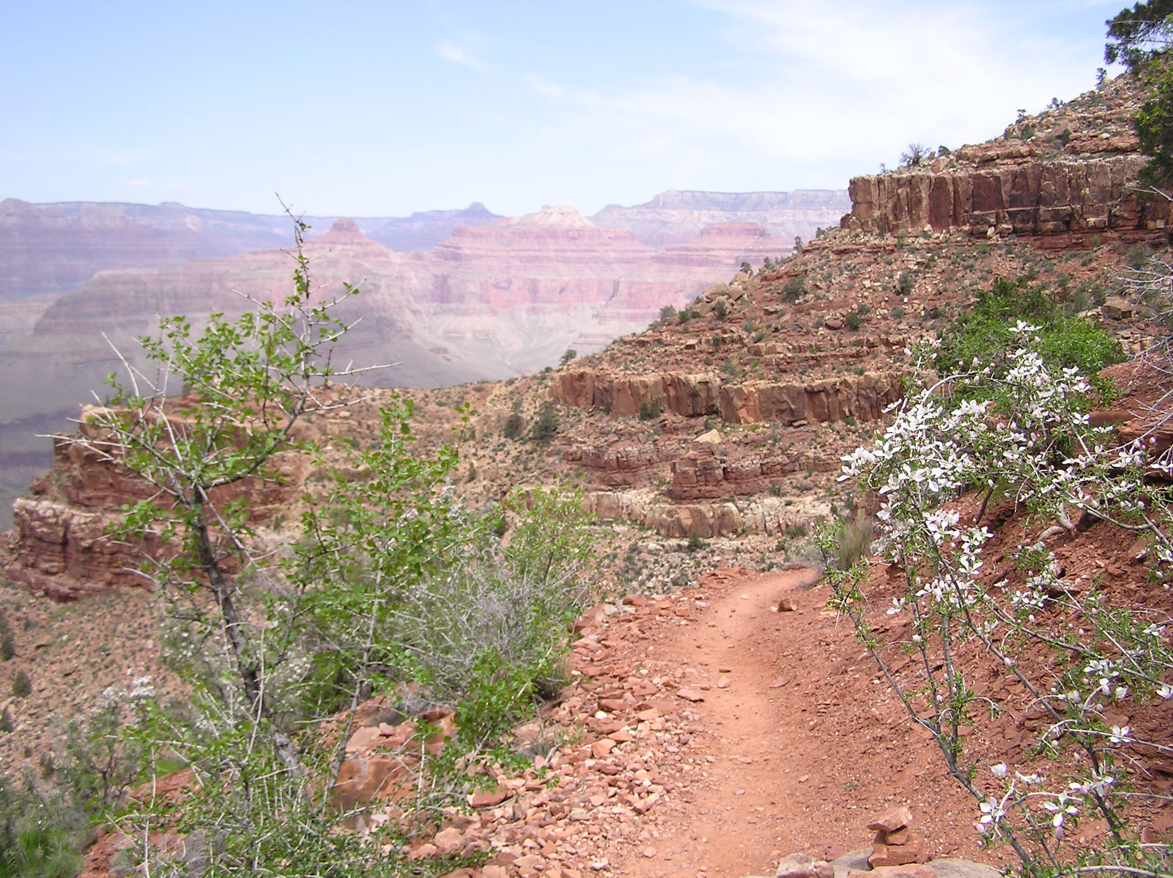 Plants along the Hermit Trail near Lookout Point. South Rim — in Grand Canyon National Park. Taken 16 April 2005.